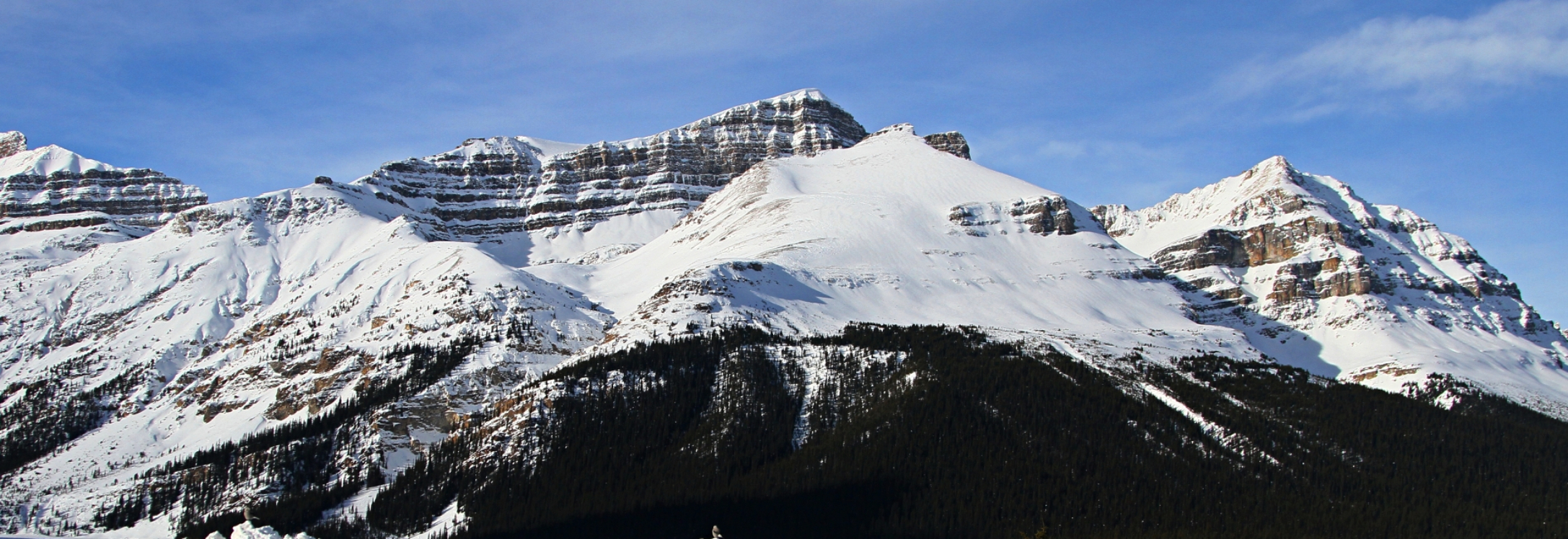 Mount Jimmy Simpson in winter seen from Bow Lake